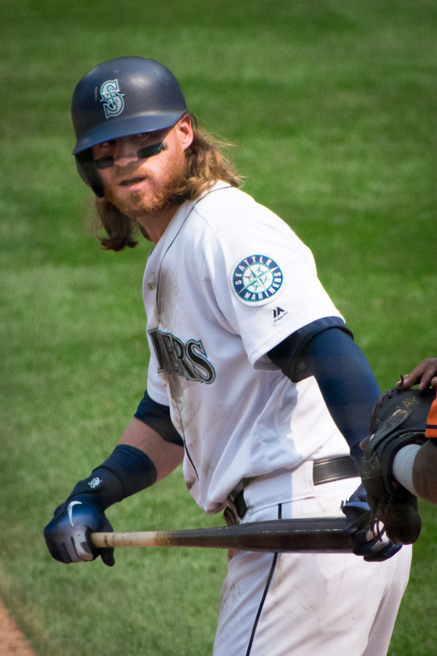 Seattle Mariners outfielder Ben Gamel batting against the Houston Astros on August 22, 2018.